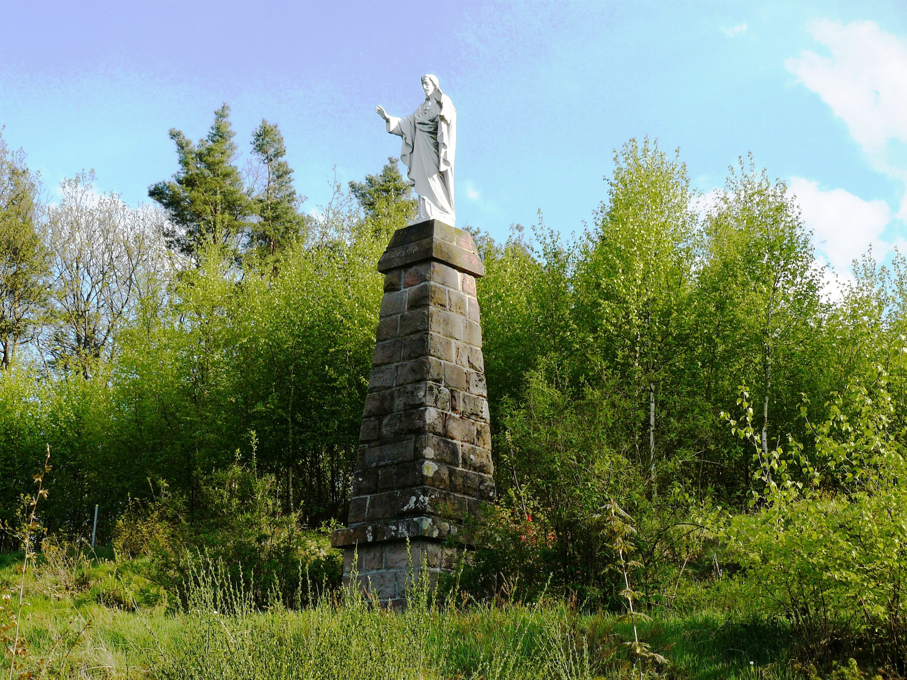 Statue du sacré au sommet de la colline du Rain de l'Annot